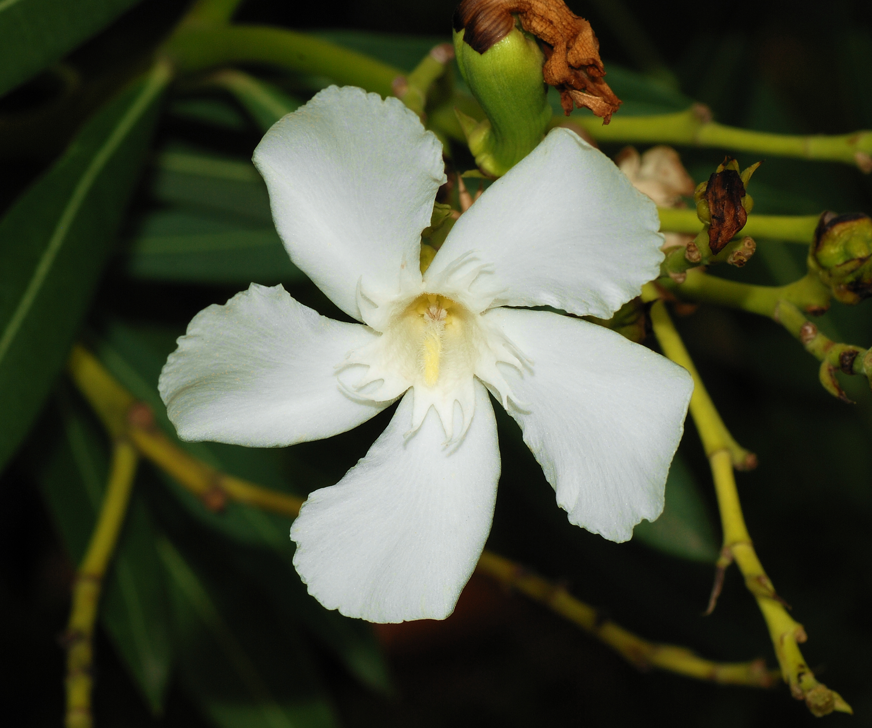 White flower of an oleander (Nerium oleander)